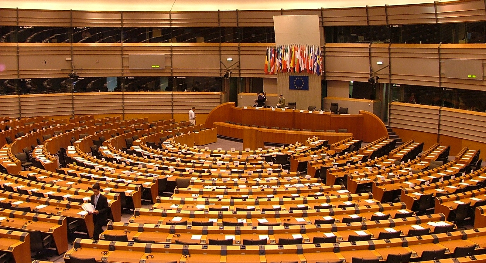 Belgium, Bruxelles - Brussel, European Parliament. The hemicycle empty.